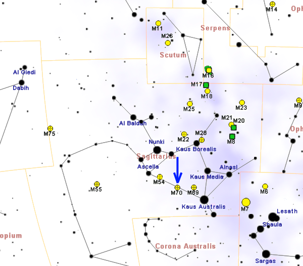 Map of M70